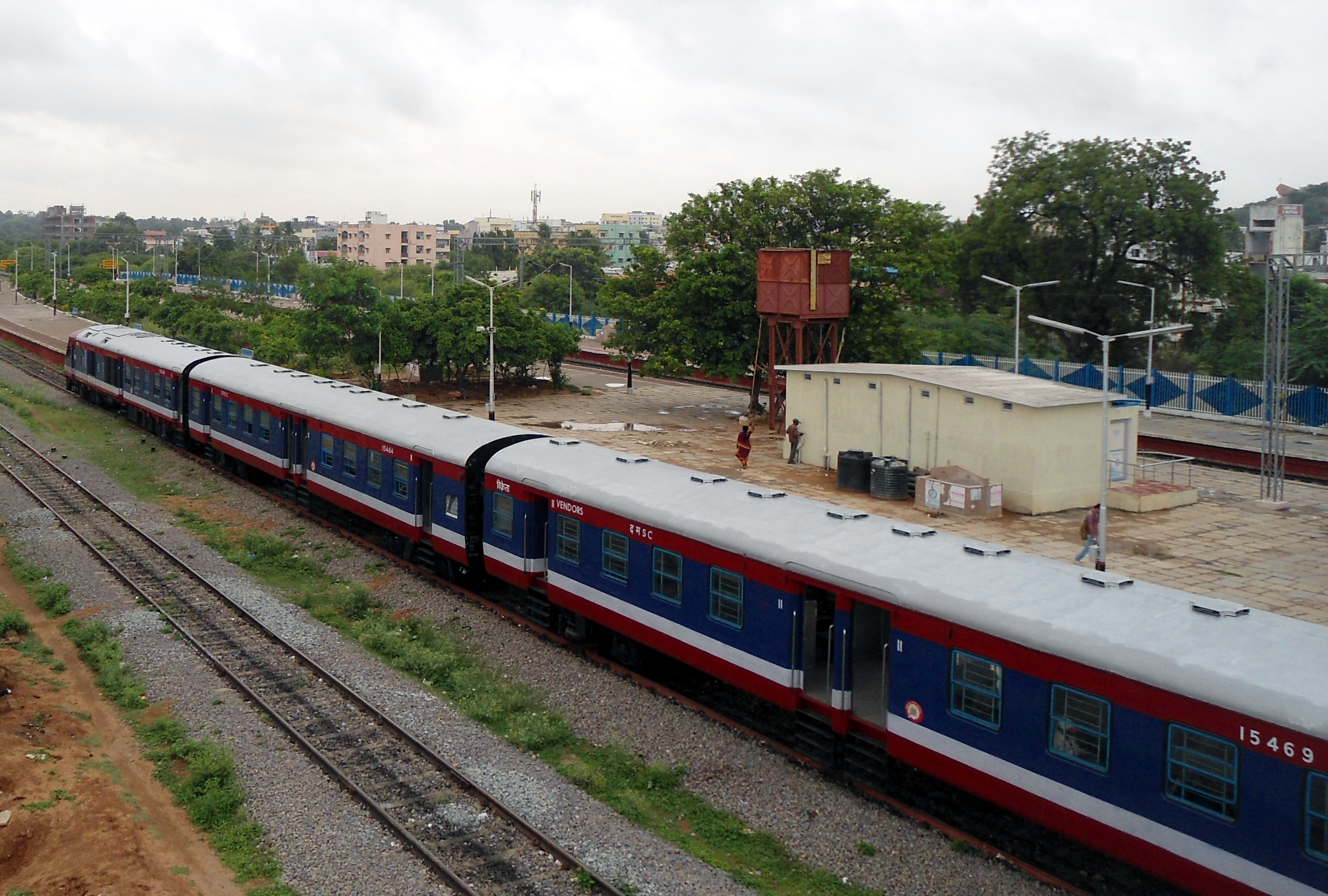 KCG-Miryalguda DEMU Passenger train at Malkajigiri Train Station, Secunderabad